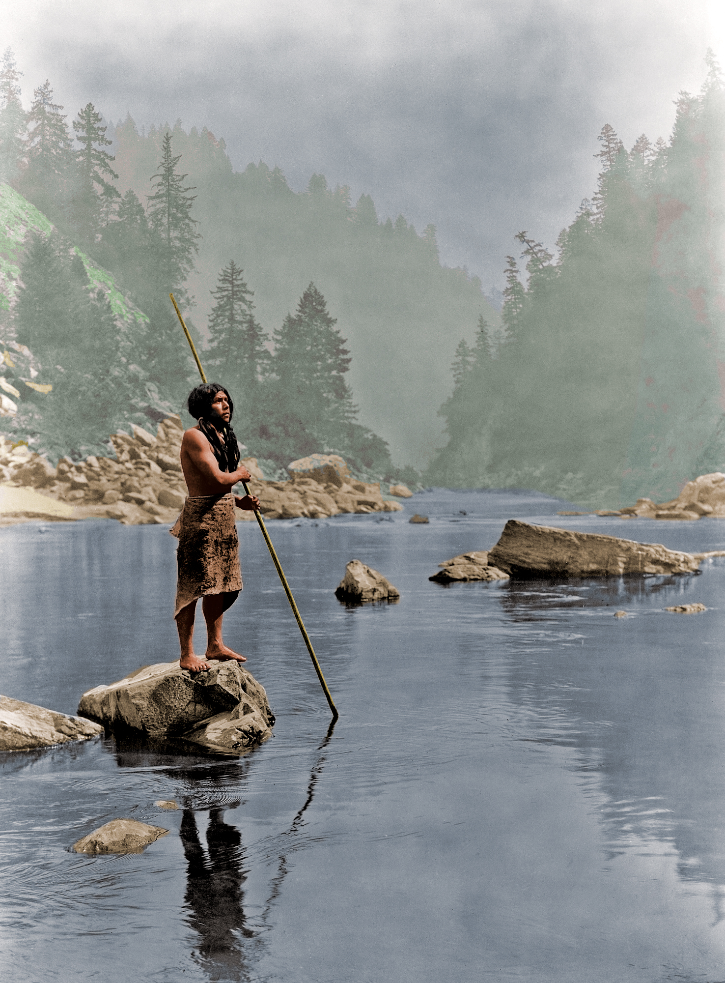 based on a photography by Edward Curtis